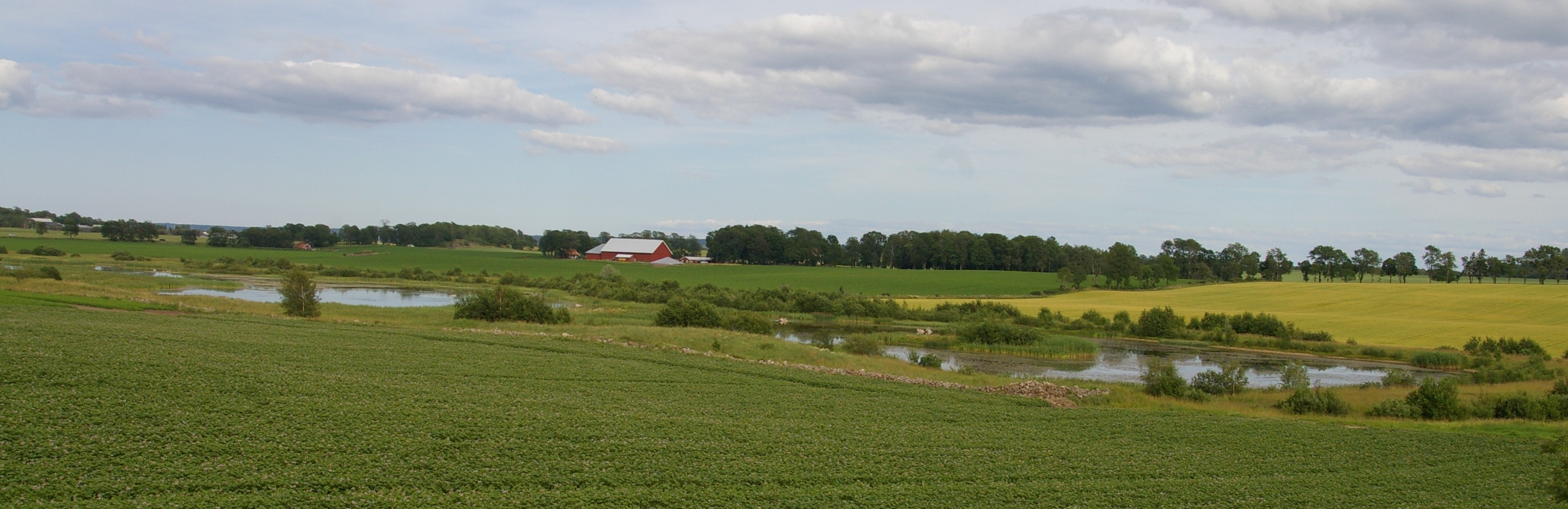 Agnestadsjön - man made artificial lake outside Falköping Sweden.